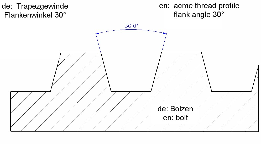 Acme thread profile